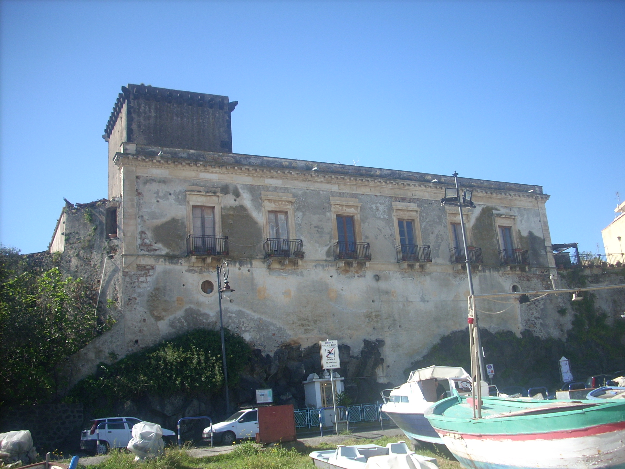 schisò Castle, Giardini Naxos, Sicily